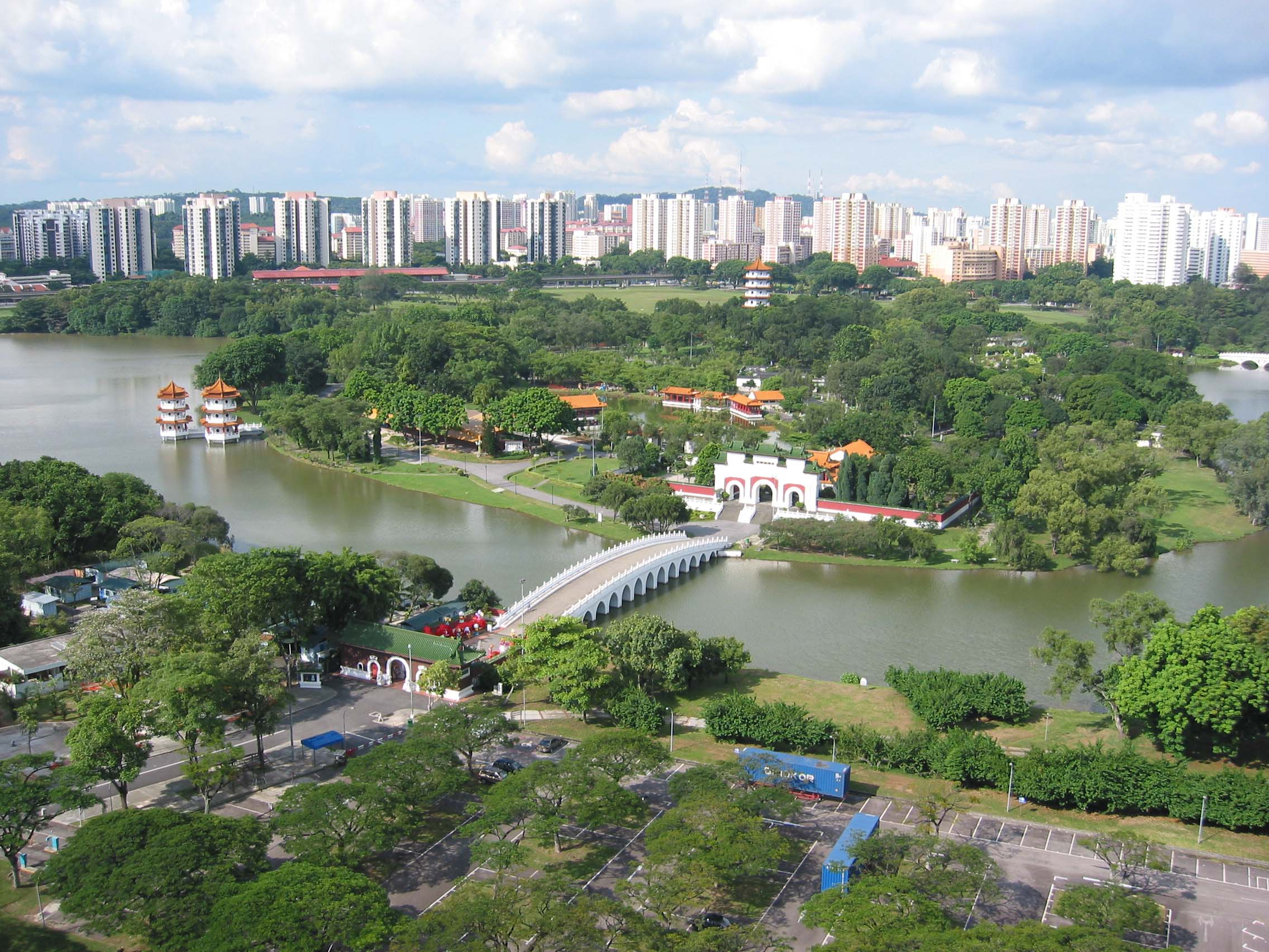 An aerial view of the southern to middle part of Jurong Lake in Jurong East, Singapore.